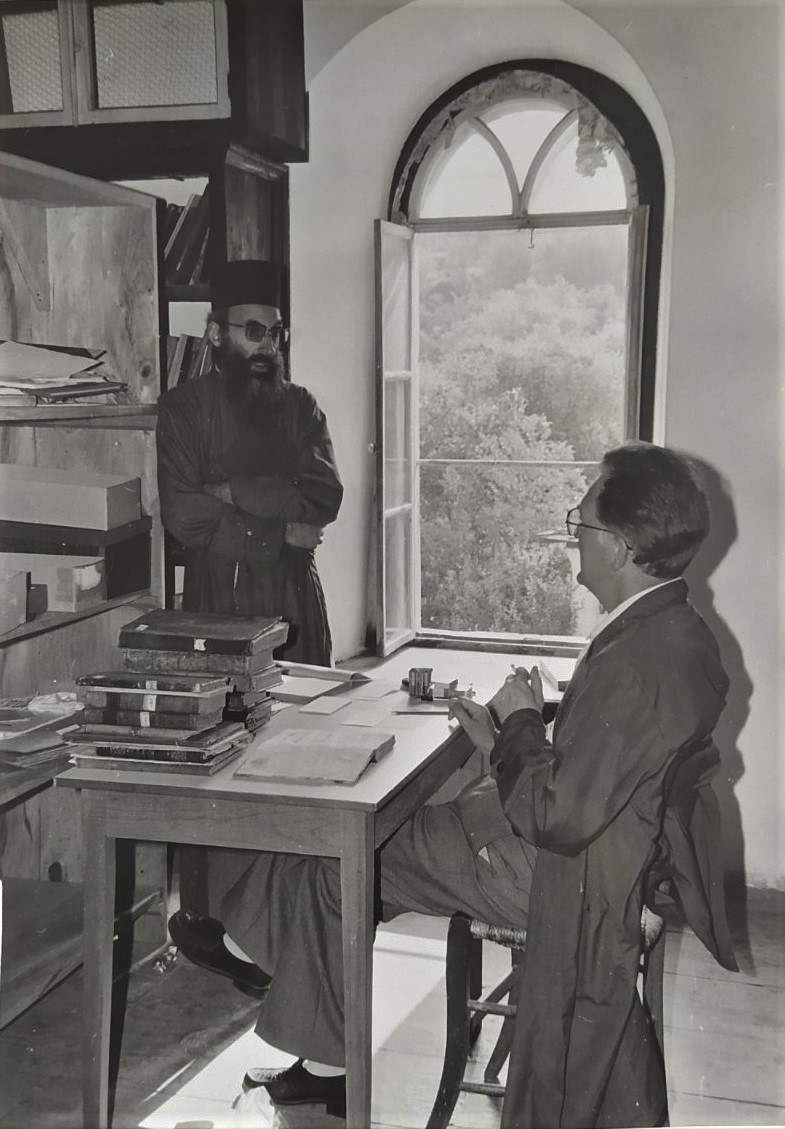 Miodrag Živanov and Father Hrizostom Stolić in The Hilandar Monastery. Photo can be found in the Society for Culture, Art and International Cooperation Adligat in Belgrade, Serbia. Српски (ћирилица): Миодраг Живанов и отац Хризостом Столић у Хиландарској библиотеци на Светој гори. Фотографија се налази у Удружењу за културу, уметност и међународну сарадњу „Адлигат” у Београду.